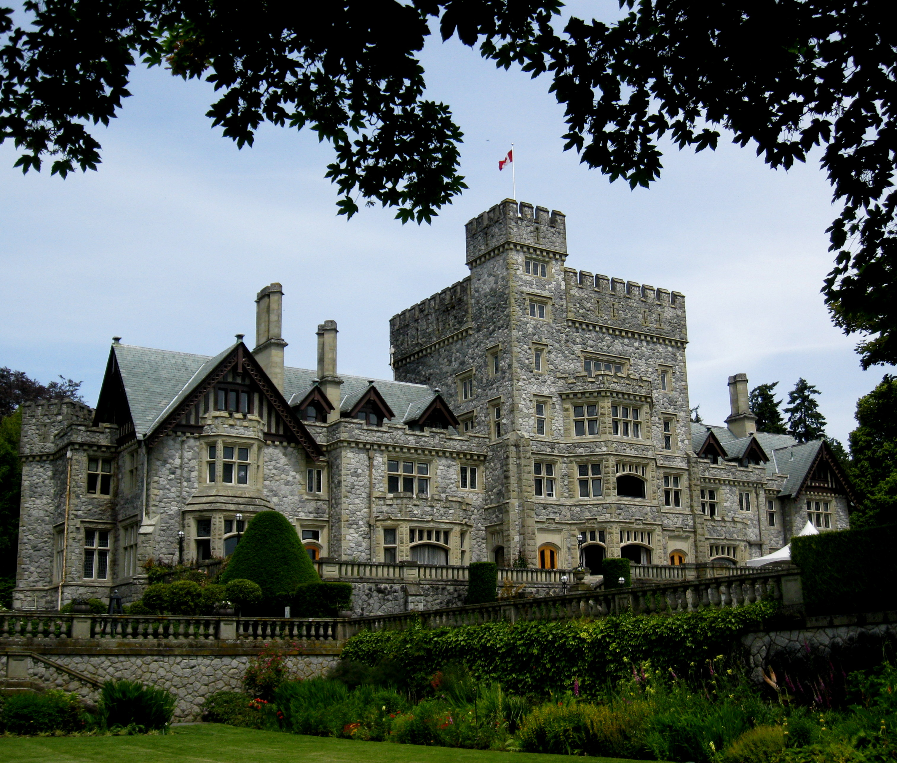 Hatley Castle. INFO IN PANORAMIO DESCRIPTION